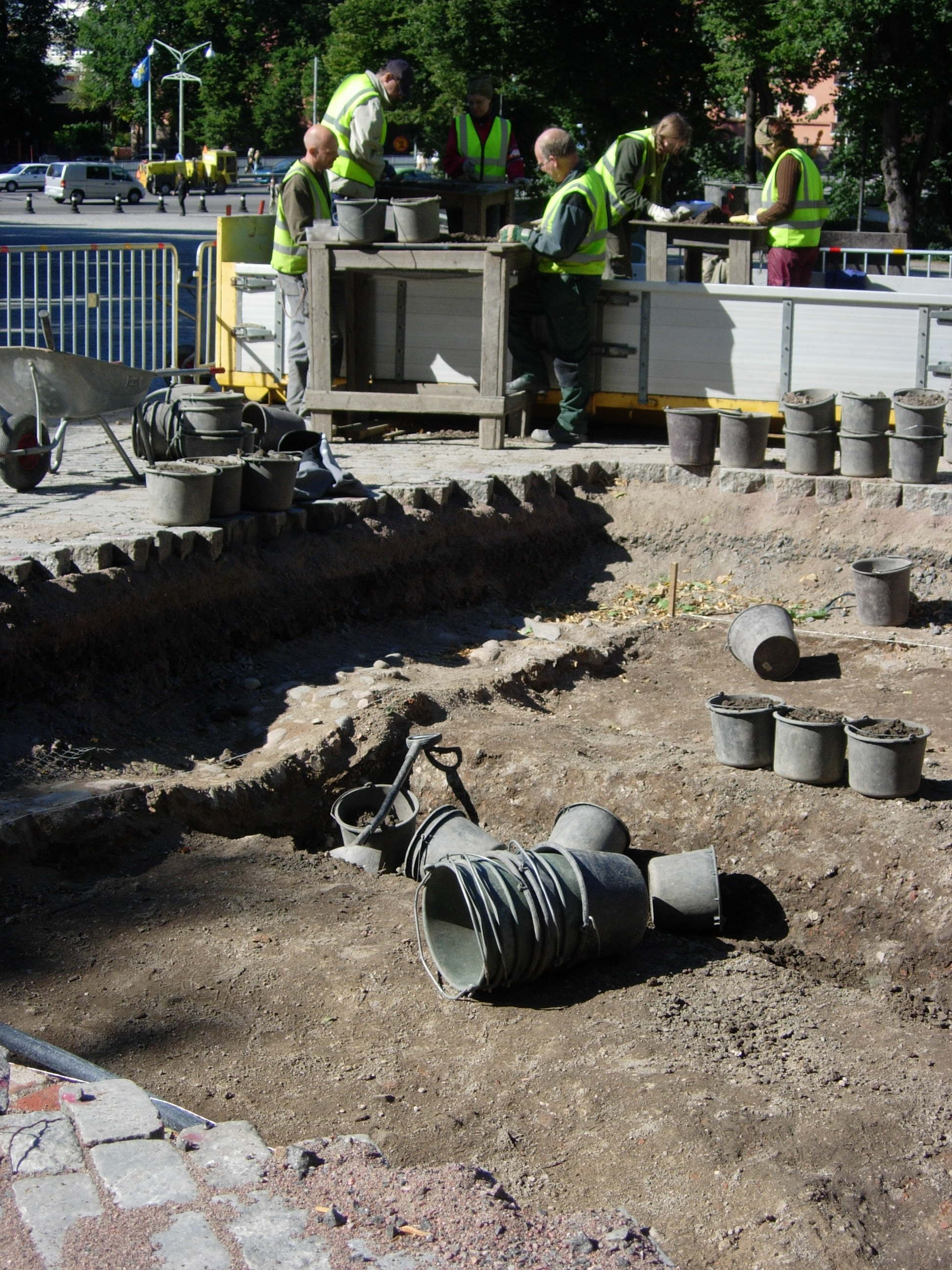 Archeological excavations at the Cathedral Square in Turku.jpg